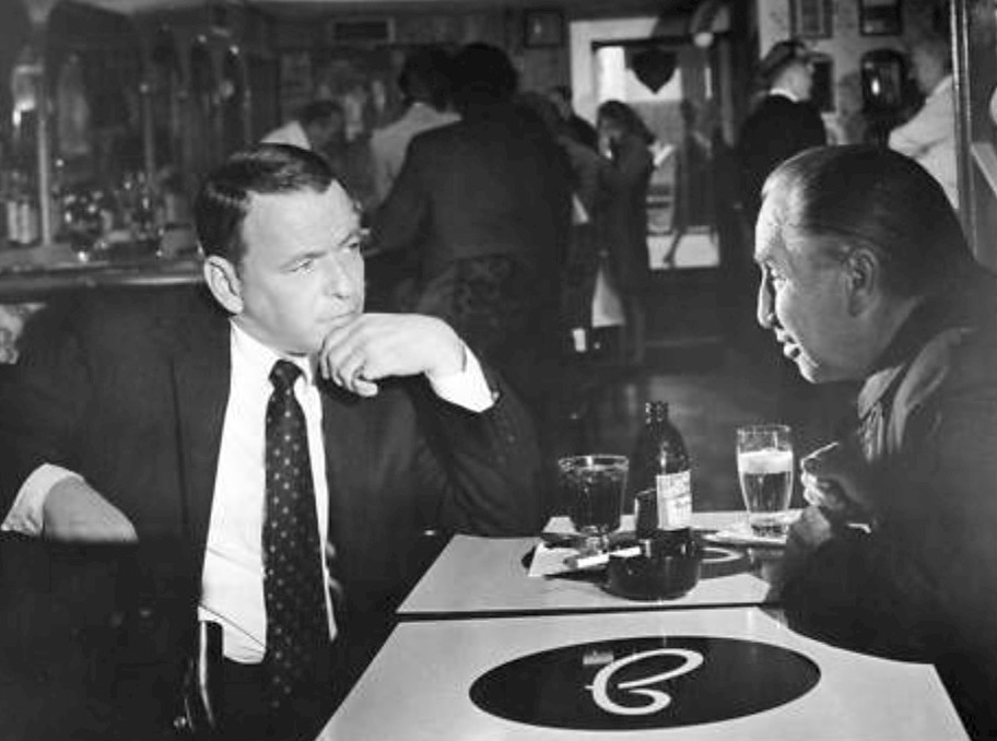 Photo of Frank Sinatra and Horace McMahon from the motion picture "The Detective". The item has no copyright markings on it as can be seen in the links above.